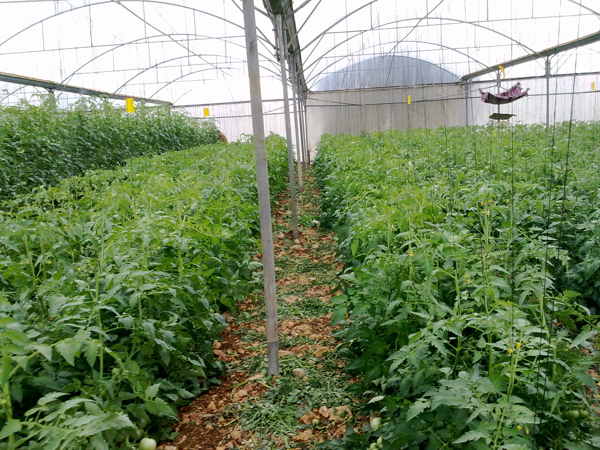 الدفيئات الزراعية